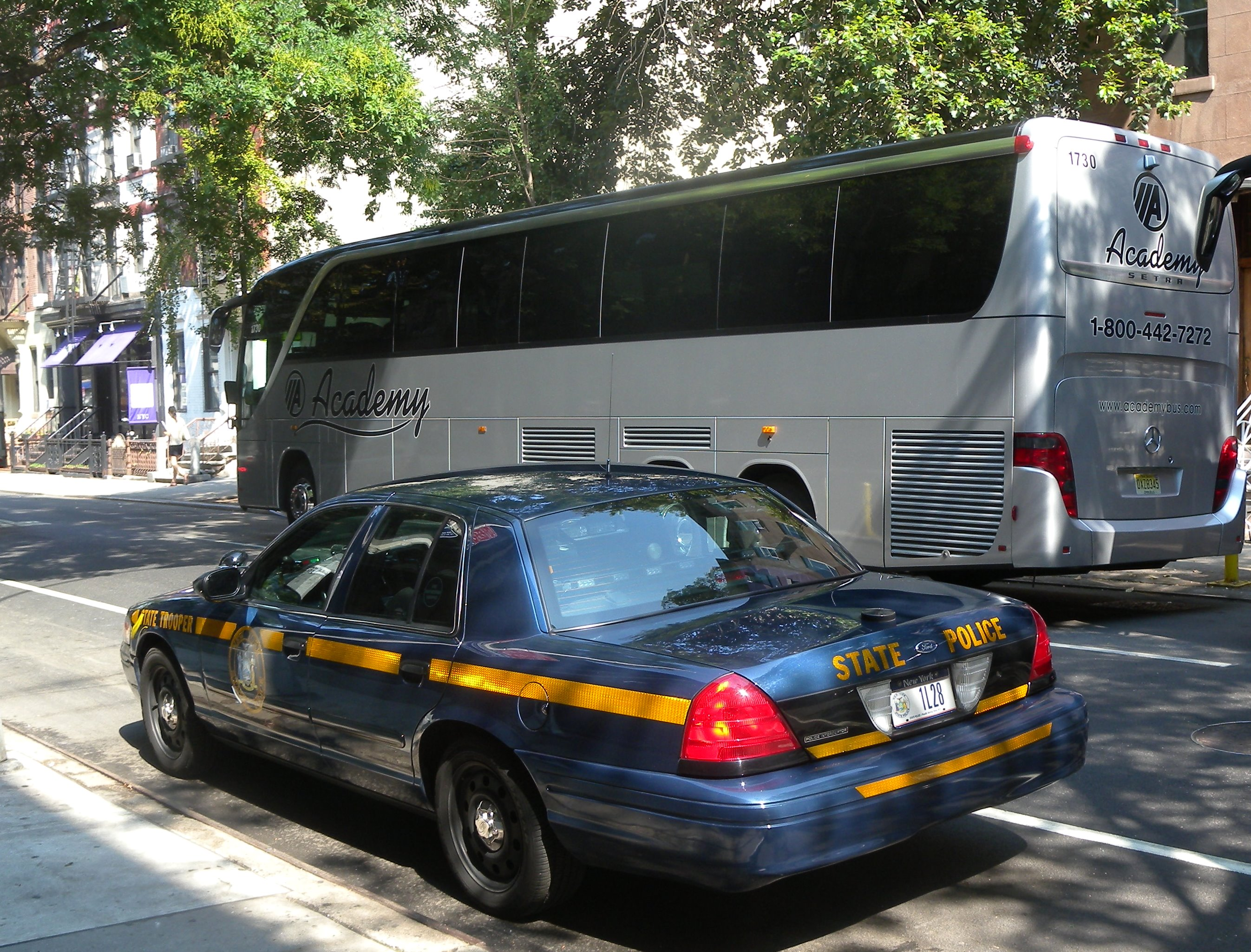 Looking northwest at NYSP car.